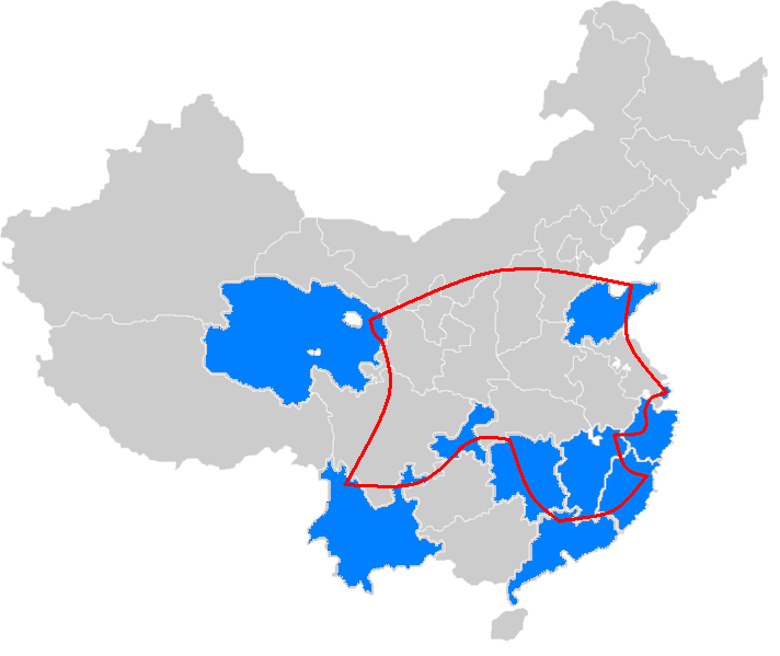 This is the map for the second season of China Rush.